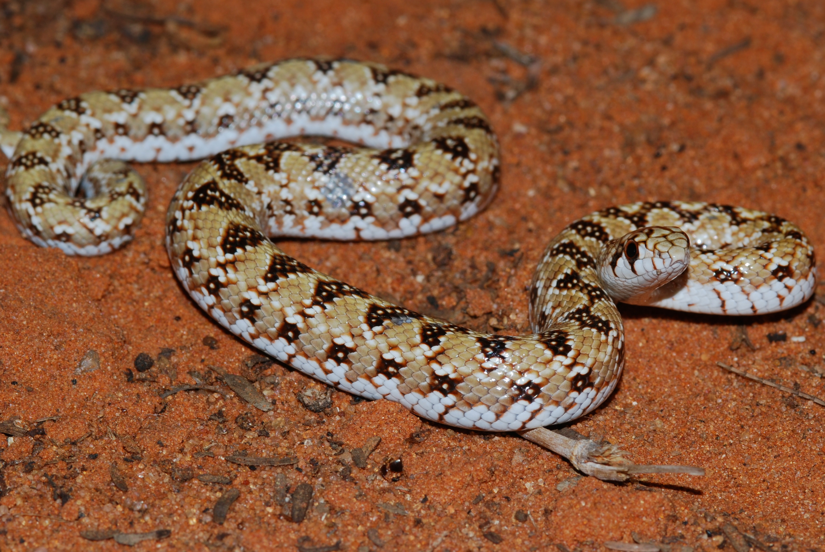 Auob River Bed, Kgalagadi Transfrontier Park, SOUTH AFRICA